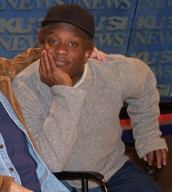 Cory Glover - rock musician, performer, singer, Living Colour